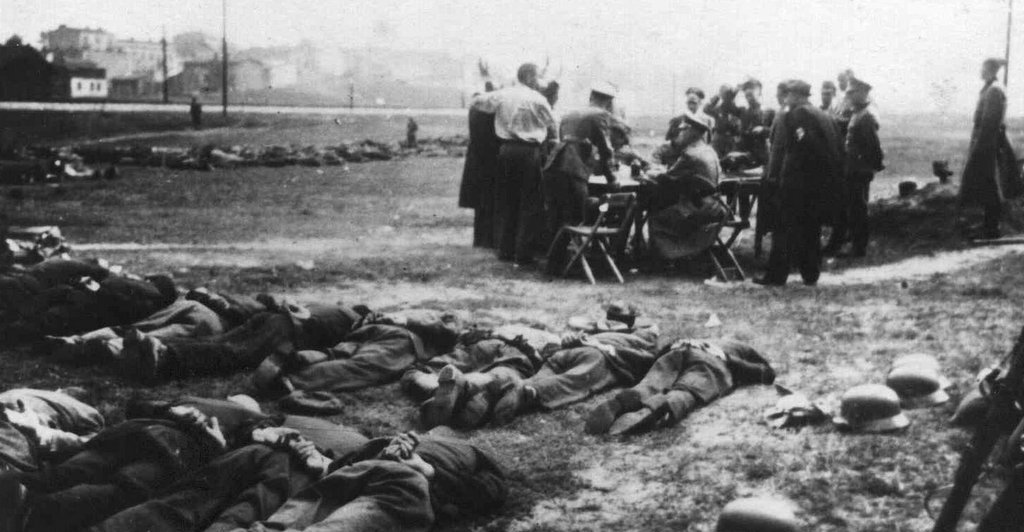 The Bloody Wednesday in Olkusz, German-occupied Poland, 31st July 1940. Polish and Jewish hostages at the forefront. In the background photo shows the table where German police officers are verifying the identity documents.